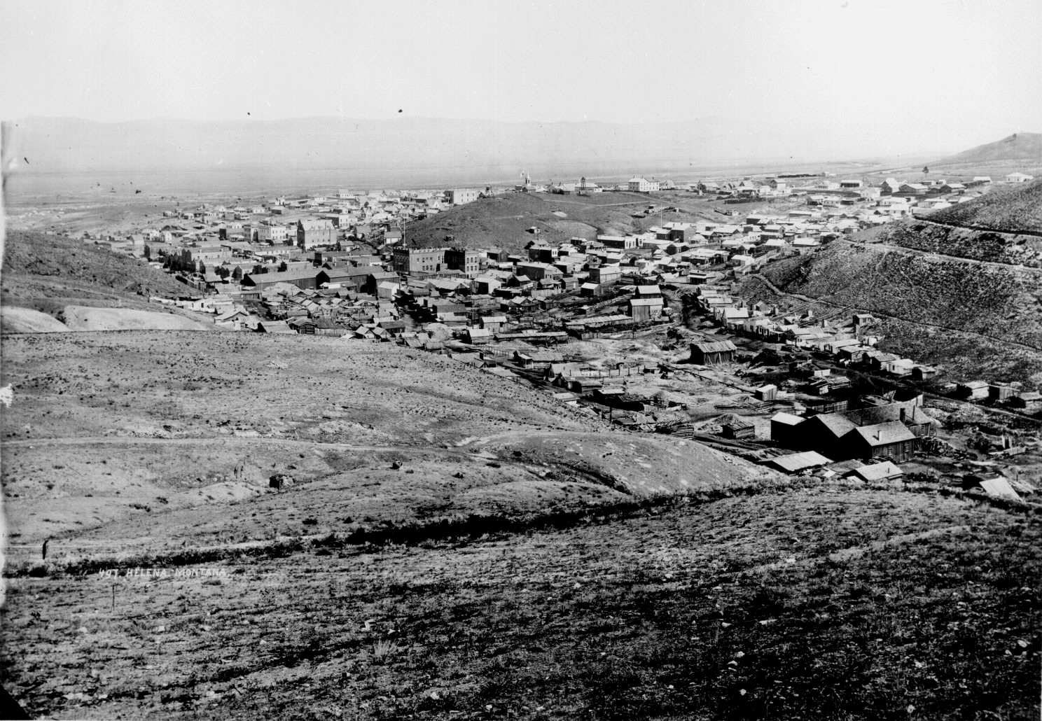 Panorama of Helena, Montana, in 1870 (or possibly 1872, per other source).